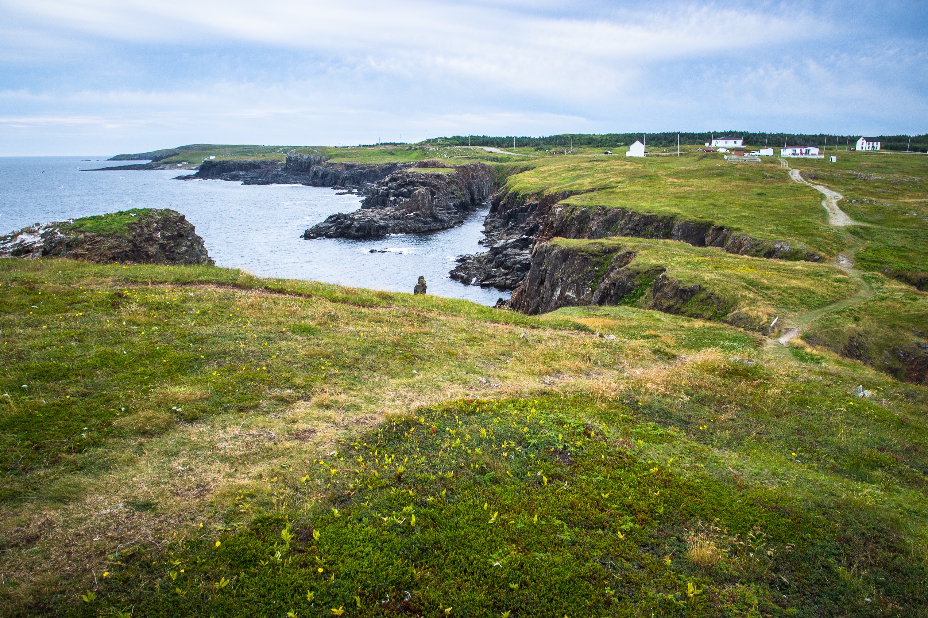 The path out to the puffin viewing site at Elliston, Newfoundland.